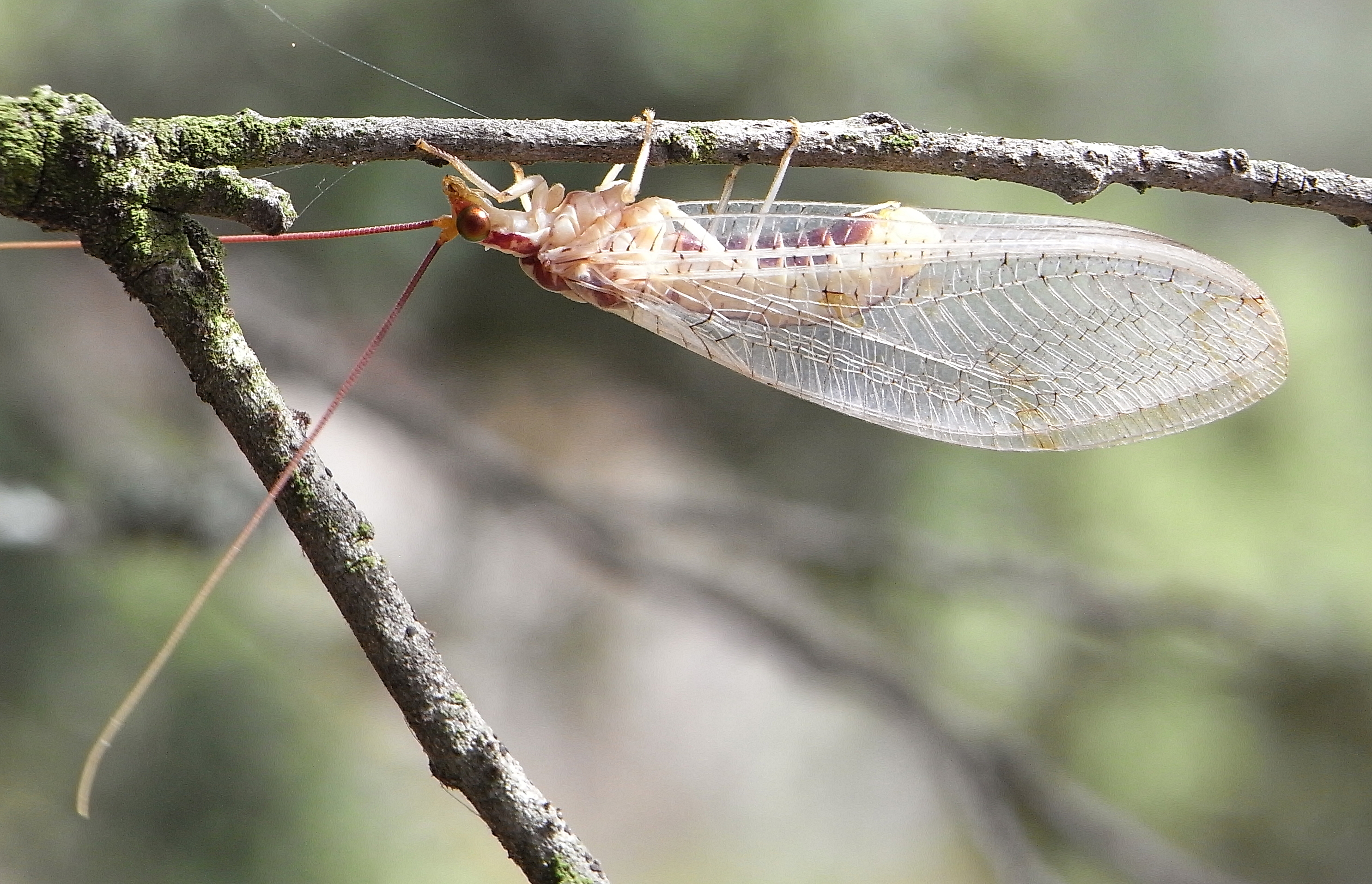 Italochrysa italica Ricoh R8